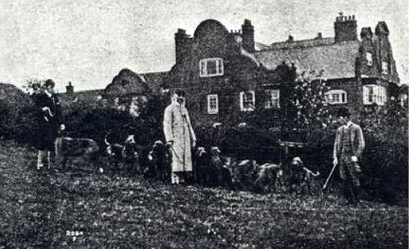 Edwin Brough and his bloodhounds at Scalby Manor in 1895